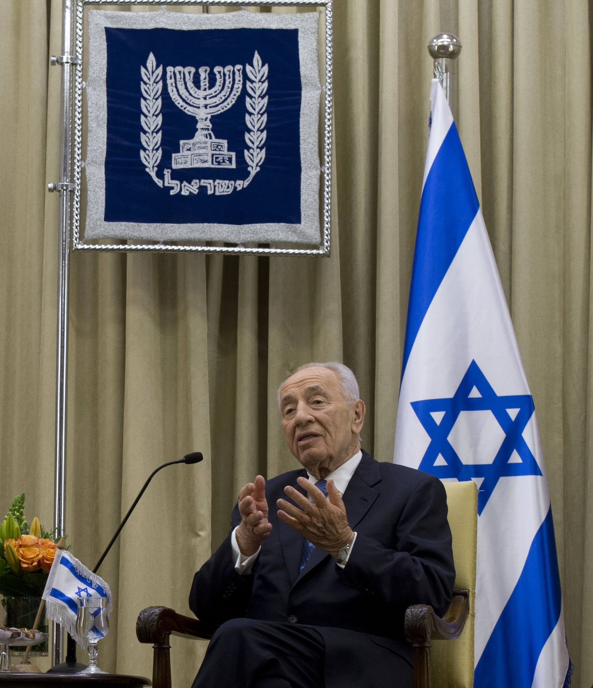 Israeli President Shimon Peres, 22 April 2013